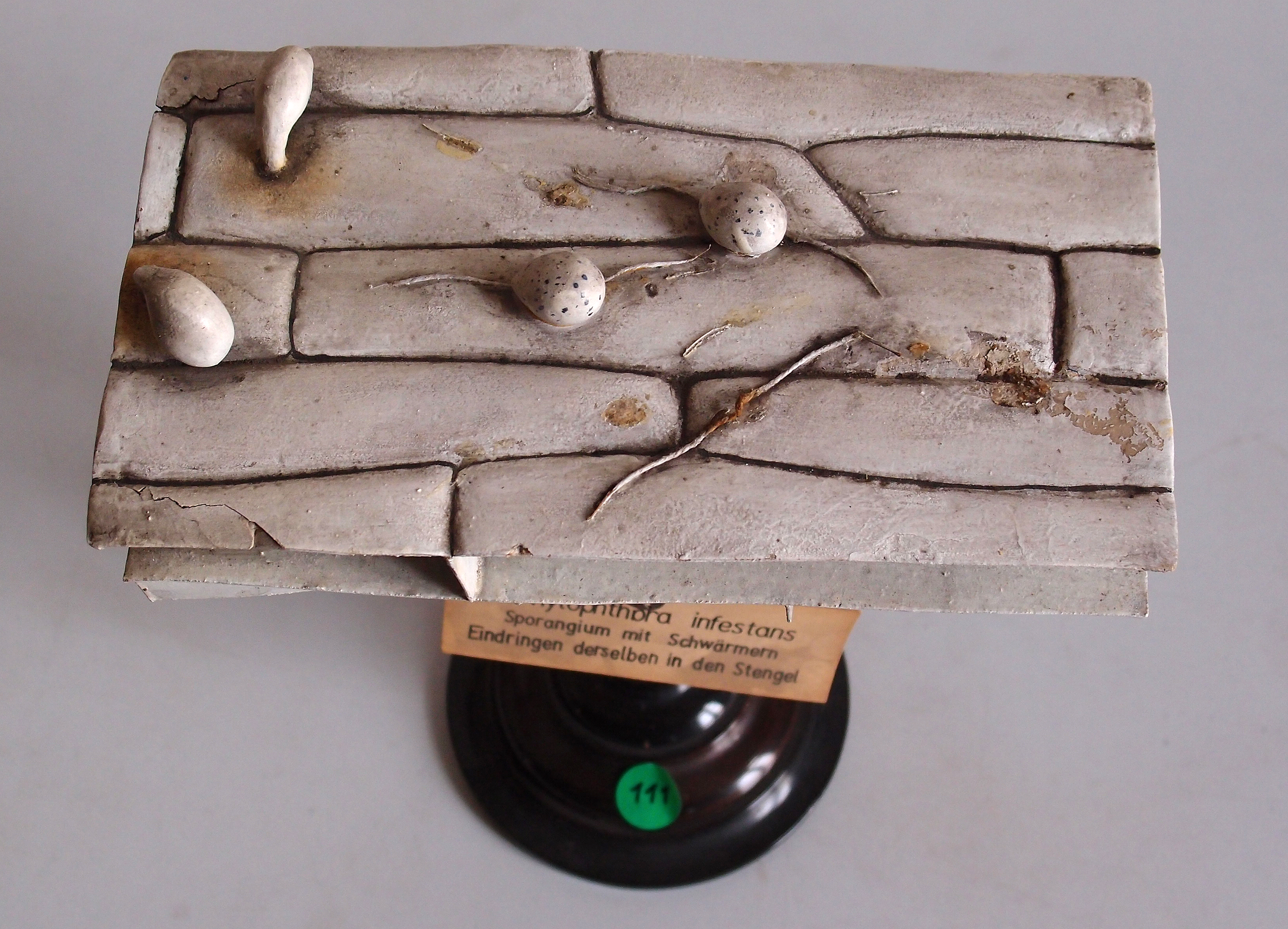 Model from the collection of the Botanical Museum in Greifswald, Germany. . see also for more information on the models